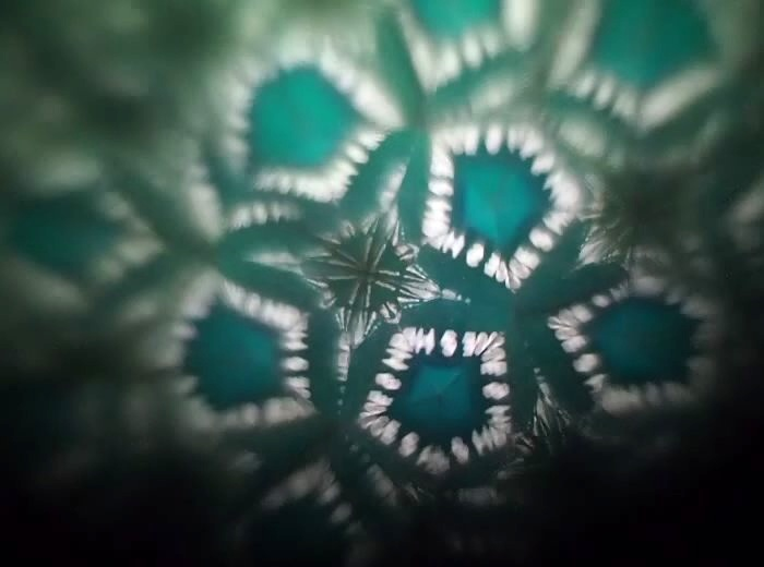 Glass ball caleidoscope image